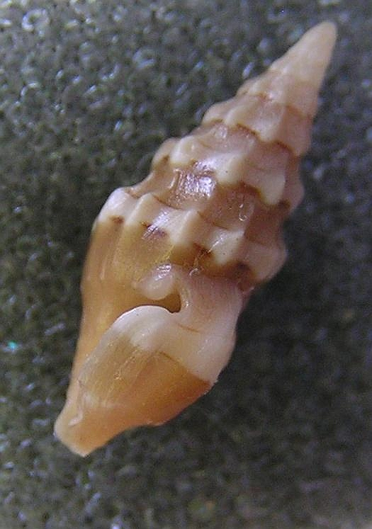 Clavus bilineatus (Reeve, 1845) ; the Philippines